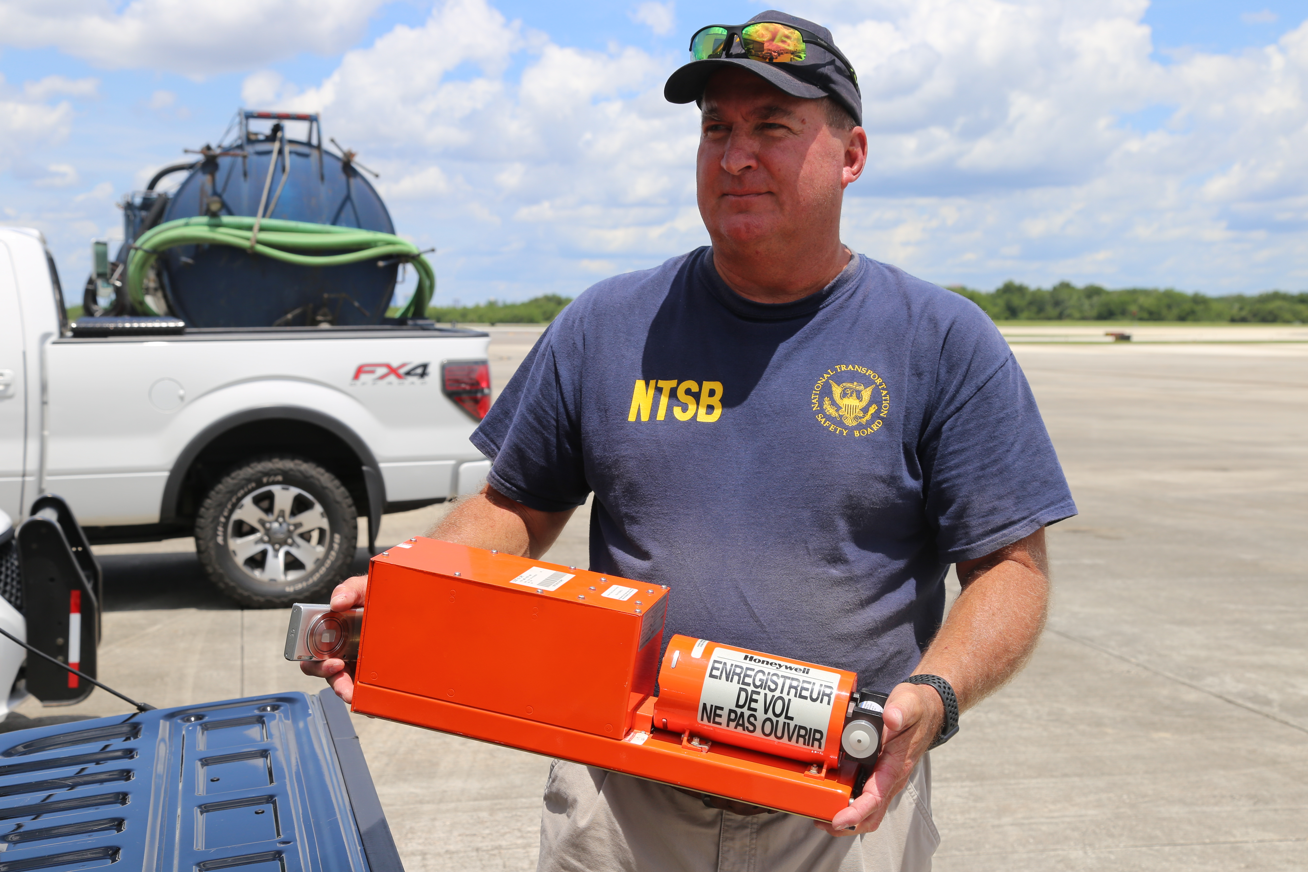 JACKSONVILLE, Florida (May 4, 2019) - NTSB investigator Dan Boggs holds the flight data recorder recovered from the Miami Air International Boeing 737-800 that overran the runway at Naval Air Station Jacksonville and came to rest in the St. Johns River in Jacksonville, Florida, on May 3, 2019. The recorder is on its way to NTSB laboratories in Washington. (NTSB photo by Eric Weiss)